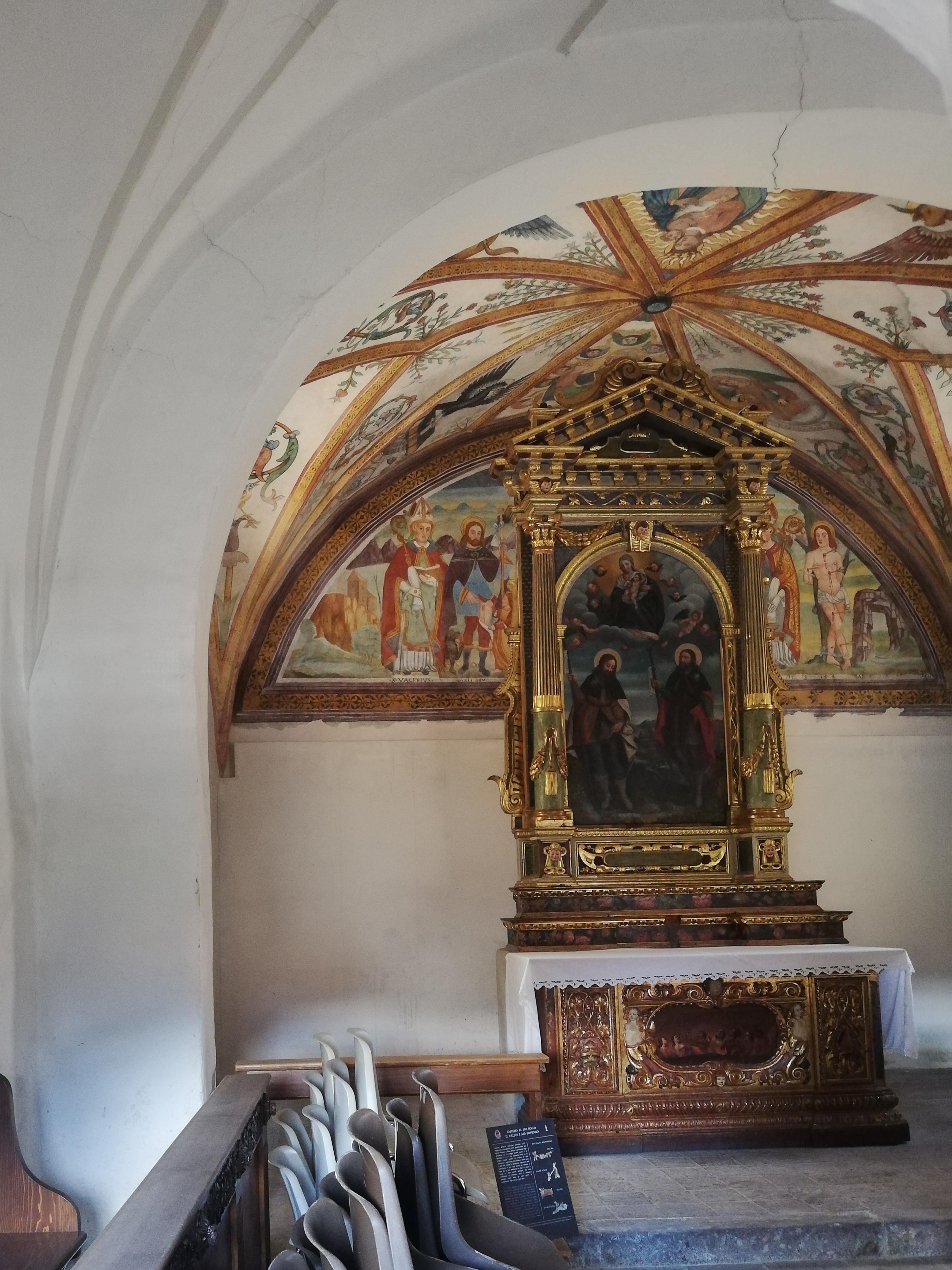 Tesero (Trentino, Italy), Saint Roch church